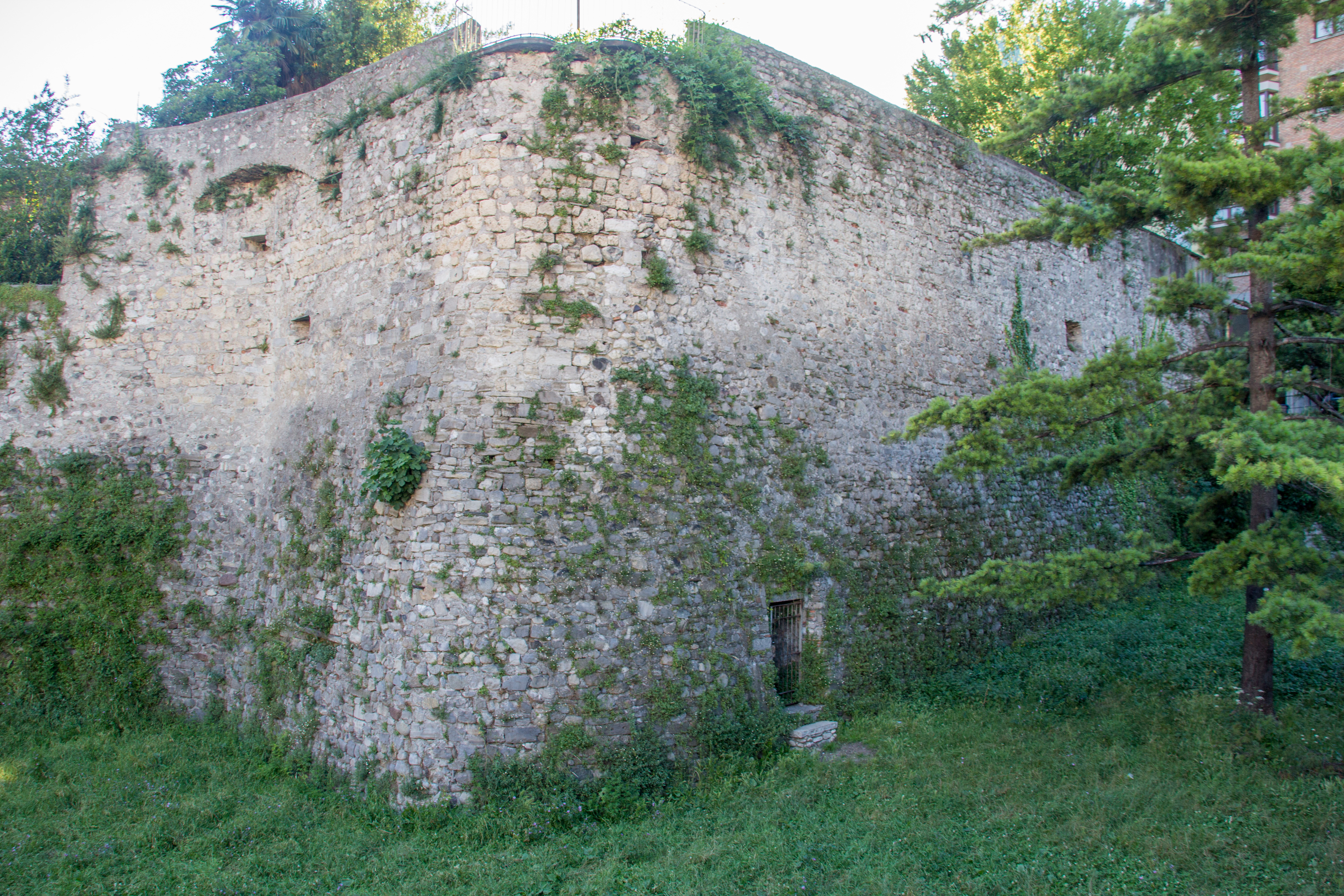 Lecco. Wikimania 2016, Esino Lario, Italy